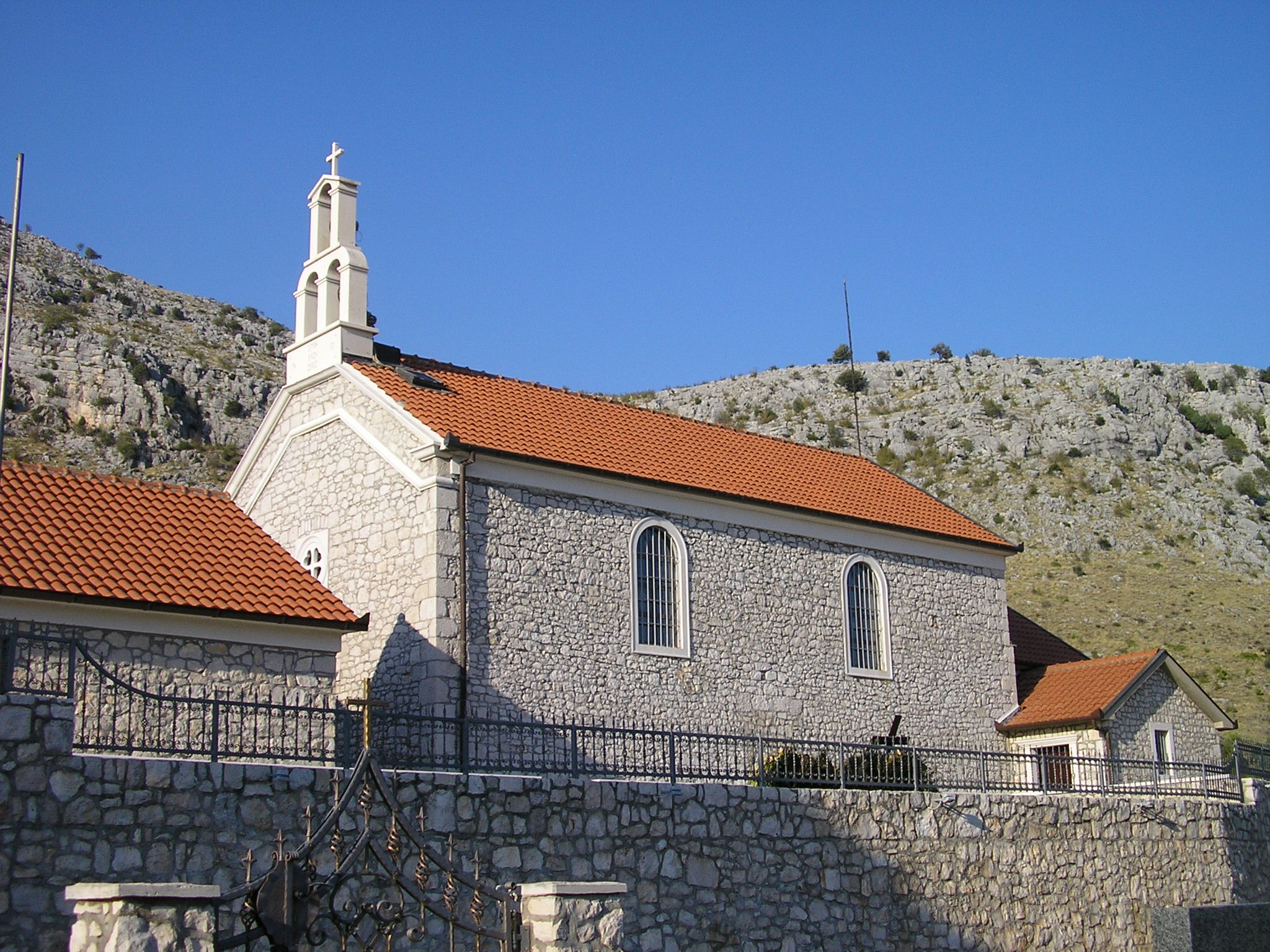 Church of Our Lady of Mount Carmel in Bagalović